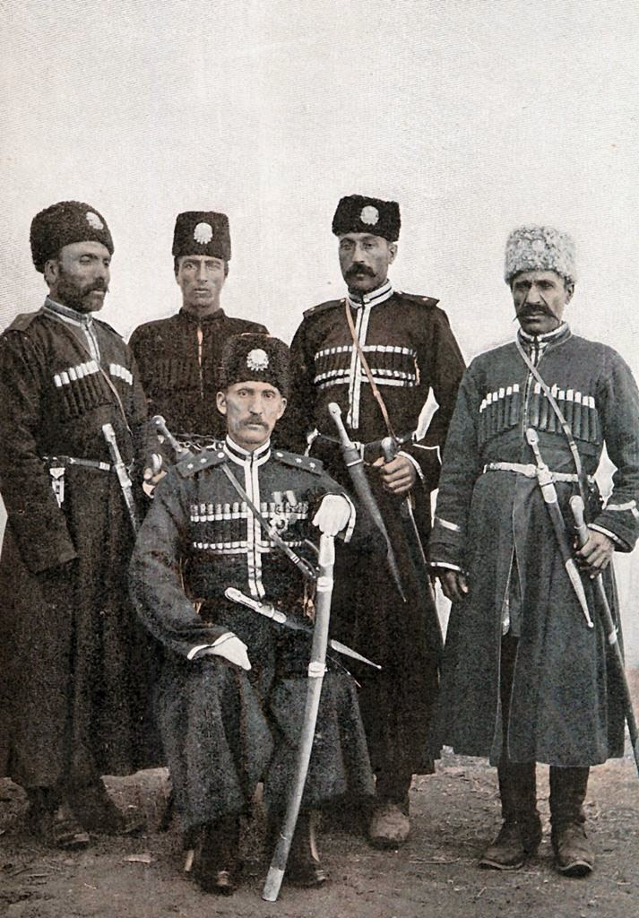 Group of Karapapakh Hamidiyeh Cavalry